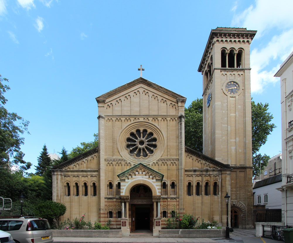 Assumption & All Saints, Ennismore gardens